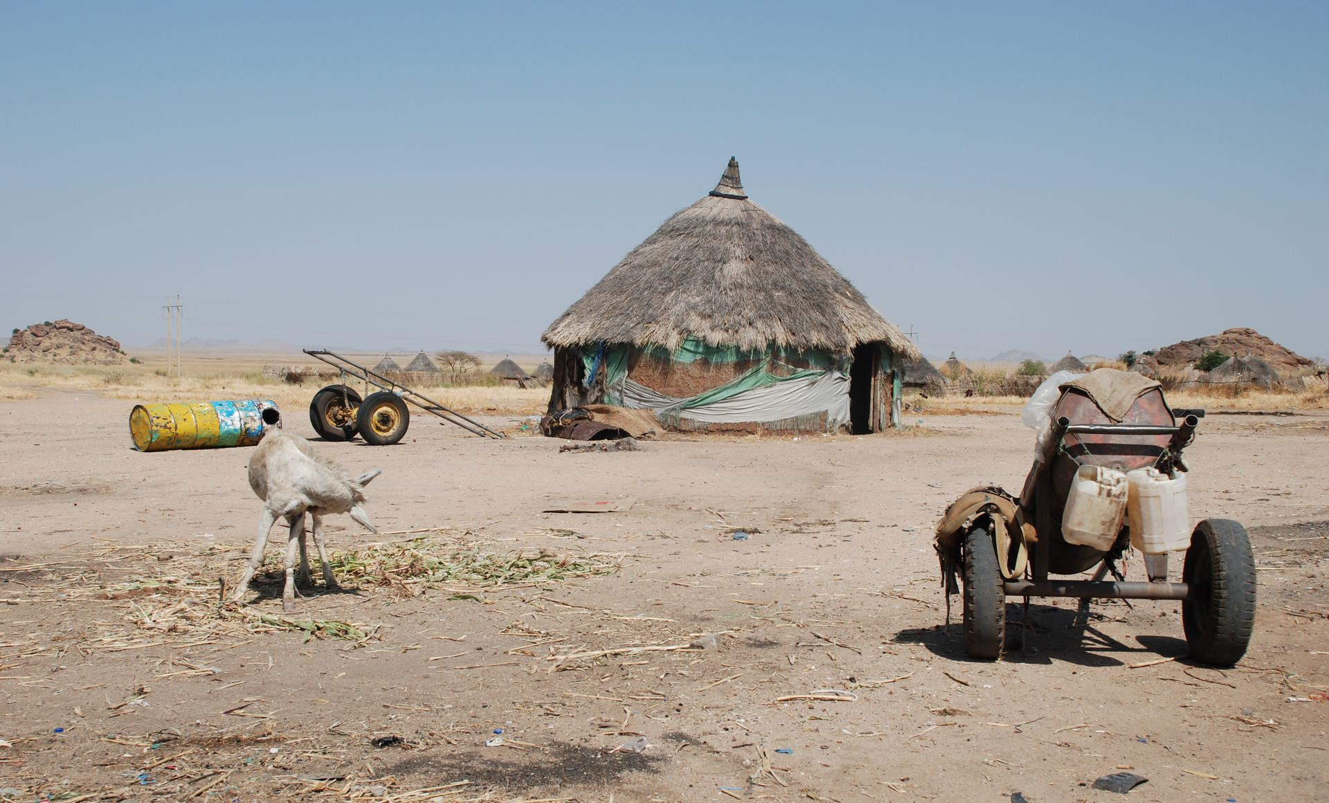 Butana steppe west of Gedaref, Sudan